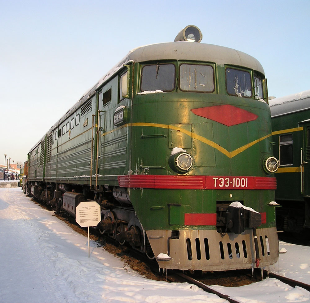 Diesel locomotive TE3-1001 in Railway Museum in Saint-Petersburg, Russia